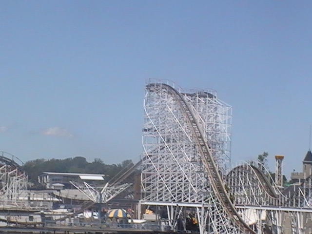 Perfect Picture Of the Hoosier Hurricane at Indiana Beach